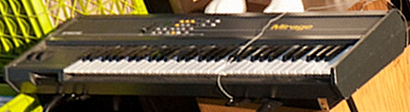 Ensoniq Mirage DSK-8 (digital sampling keyboard) earlier model with serial port